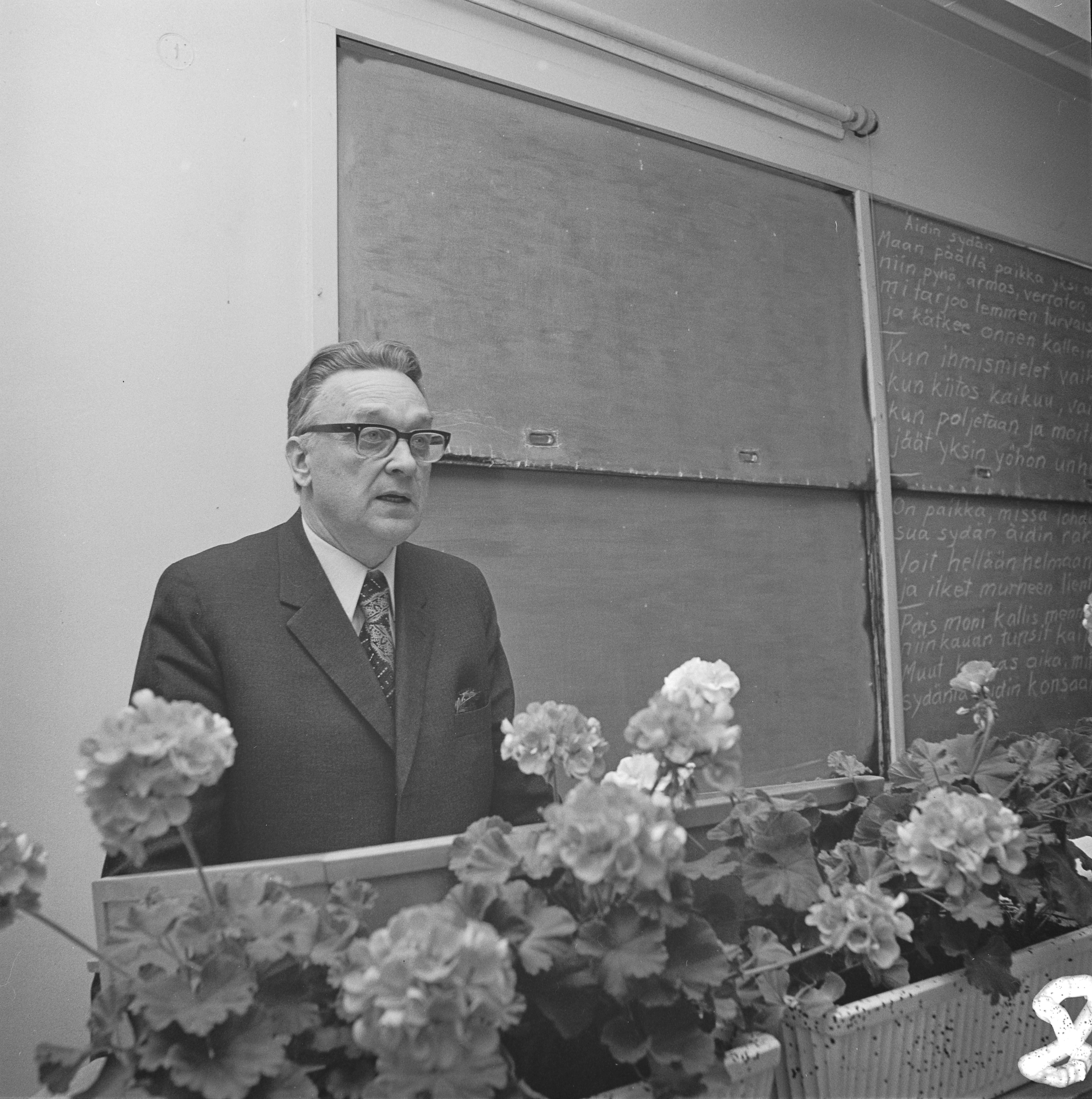 Photograph of the Finnish ethnologist Niilo Valonen (1913–1983), speaking in Lohja, at a seminarium on traditions.